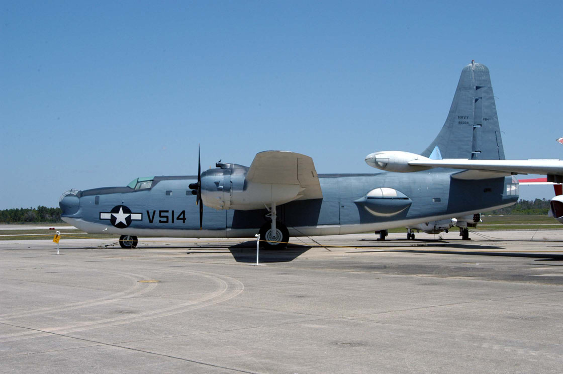 A Consolidated PB4Y-2 Privateer (BuNo 66261) of the U.S. National Museum of Naval Aviation, Pensacola, Florida (USA). It was accepted by the U.S. Navy on 14 September 1945 and almost immediately placed in long term storage at Naval Air Facility Litchfield Park, Arizona. Returned to service in 1952 and redesignated a P4Y-2G, the aircraft was assigned to the U.S. Coast Guard, initially operating with the Coast Guard Air Detachments at Midway Islands until transferred to the Coast Guard Air Detachment at Naval Air Station Barbers Point, Hawaii, in 1953. From 1957 it was assigned to the Coast Guard Air Station San Francisco, California. It was sold and served on the ground to be used for spare parts to support other Privateers flying as aerial tankers to fight forest fires. In the early 1980s Hawkins and Powers Aviation of Greybull, Wyoming, decided to return the aircraft to flying condition and made the decision to donate it to the then Naval Aviation Museum, where it arrived in 1983.